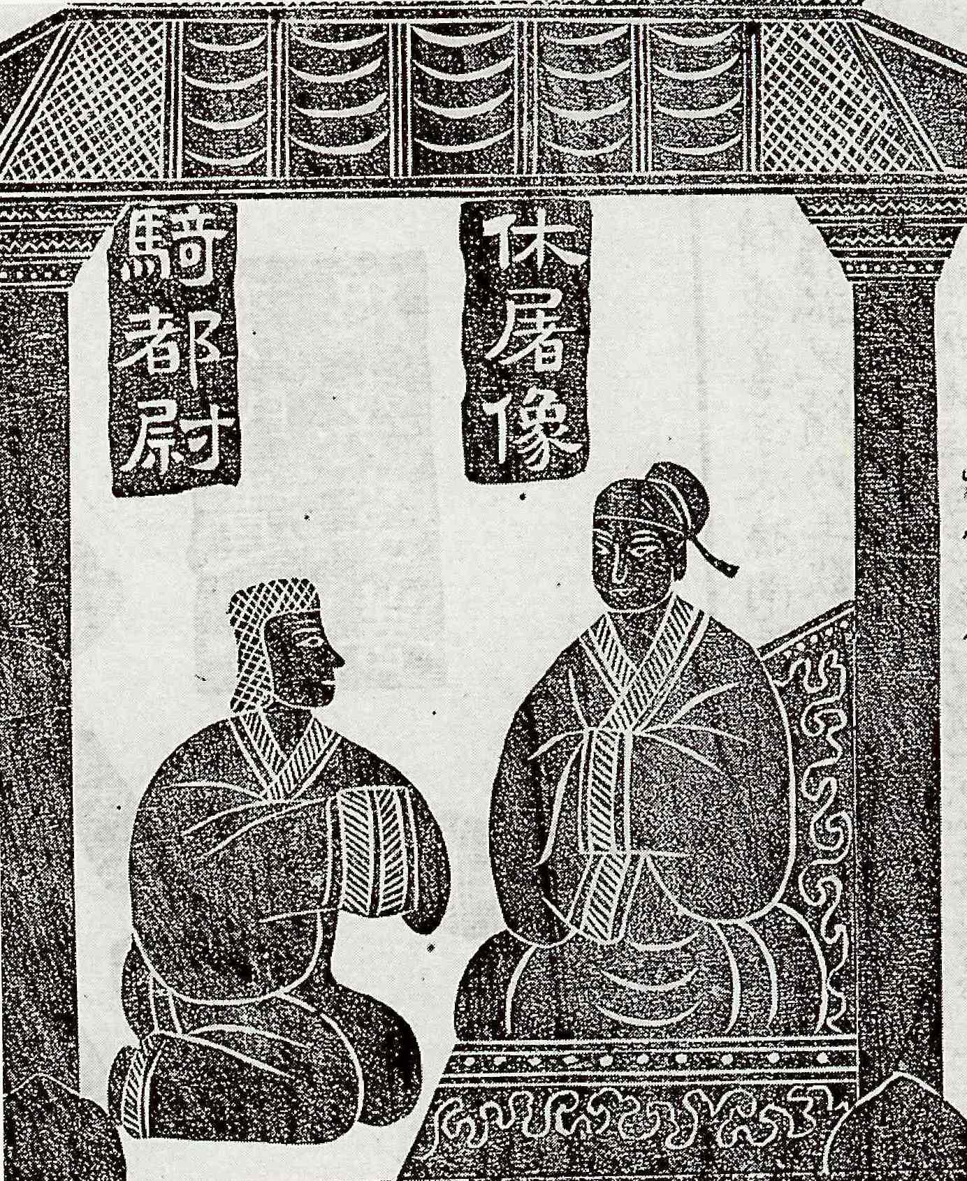 The story of Jin Midi. Wu Liang Shrine, Jiaxiang, Shandong. 2nd century AD. Ink rubbings derived from stone-carved reliefs as represented in Feng Yunpeng and Feng Yunyuan, Jinshi suo (1824 edition), n.p. Jin Midi 金日磾 (lived 134–86 BC) was born a prince of the nomadic Xiongnu, a confederation of Central Asian tribes that once dominated the eastern Eurasian Steppe. He was captured by Han-dynasty Chinese forces and made a slave who tended horses in imperial stables. However, he gained the trust of Emperor Wu when he thwarted an assassination attempt against him. When Emperor Wu lay dying at his bedside, he designated Jin Midi, Huo Guang, and Shangguan Jie as regents to rule over his Liu Fuling, then crown prince and later Emperor Zhao of Han. Jin Midi thus became one of the top officials in central government.